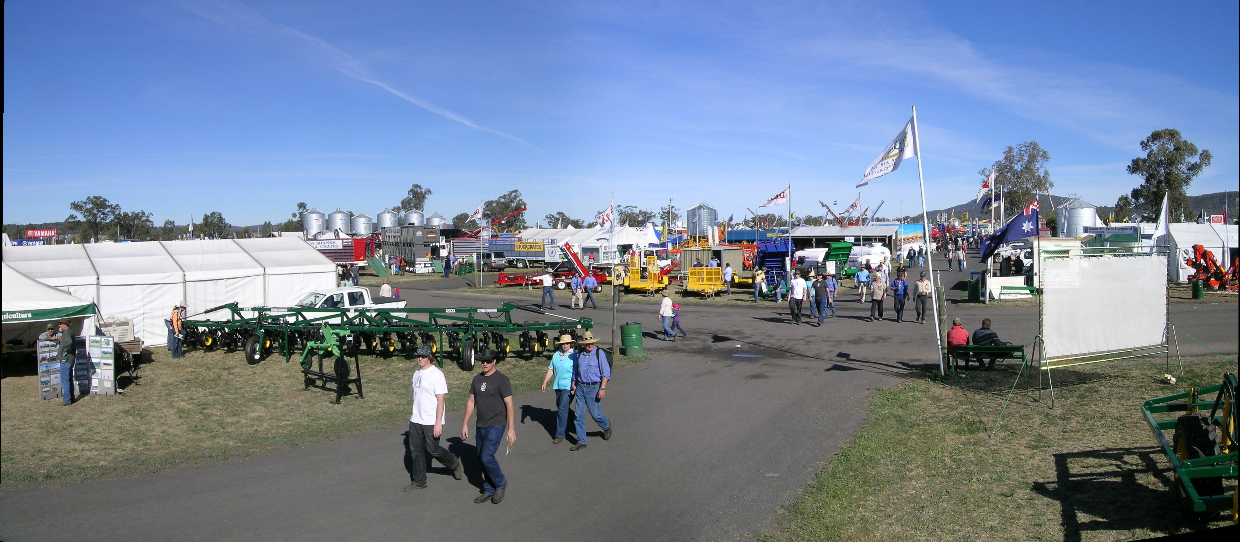 A small part of the AgQuip site; an Excel Stubble Warrior modular system minimum till planter on display on the left